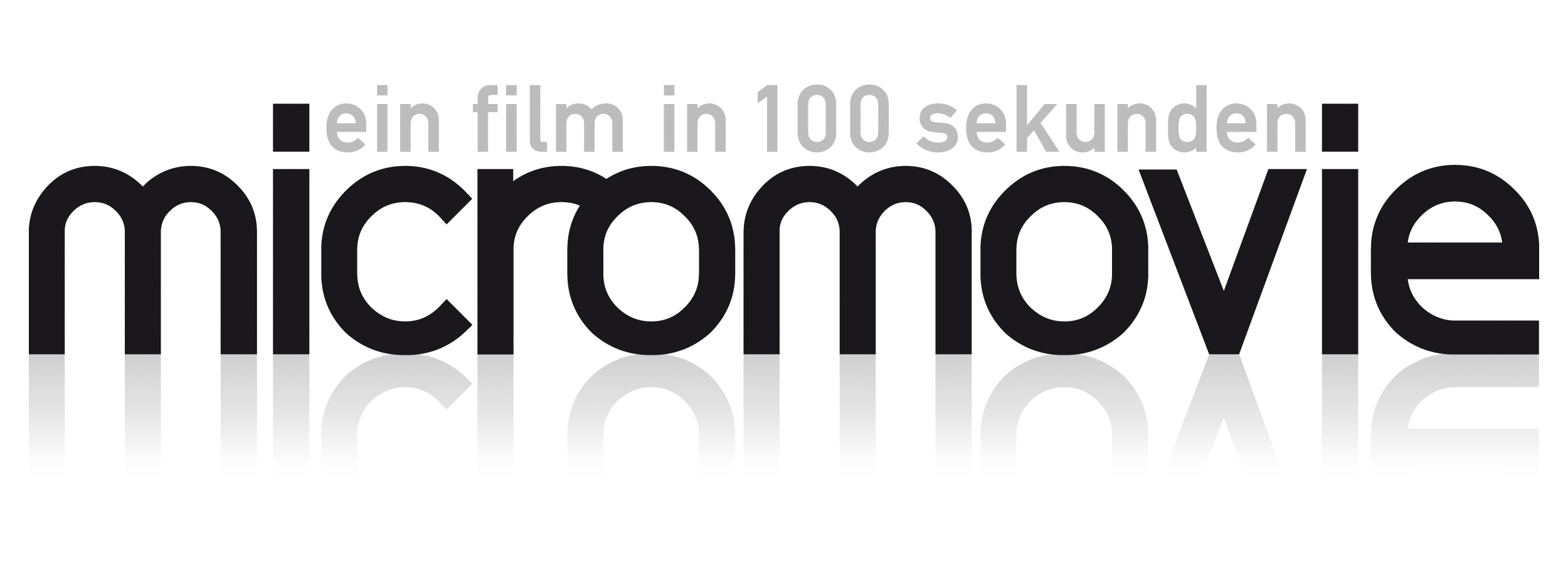 micromovie Award Logo